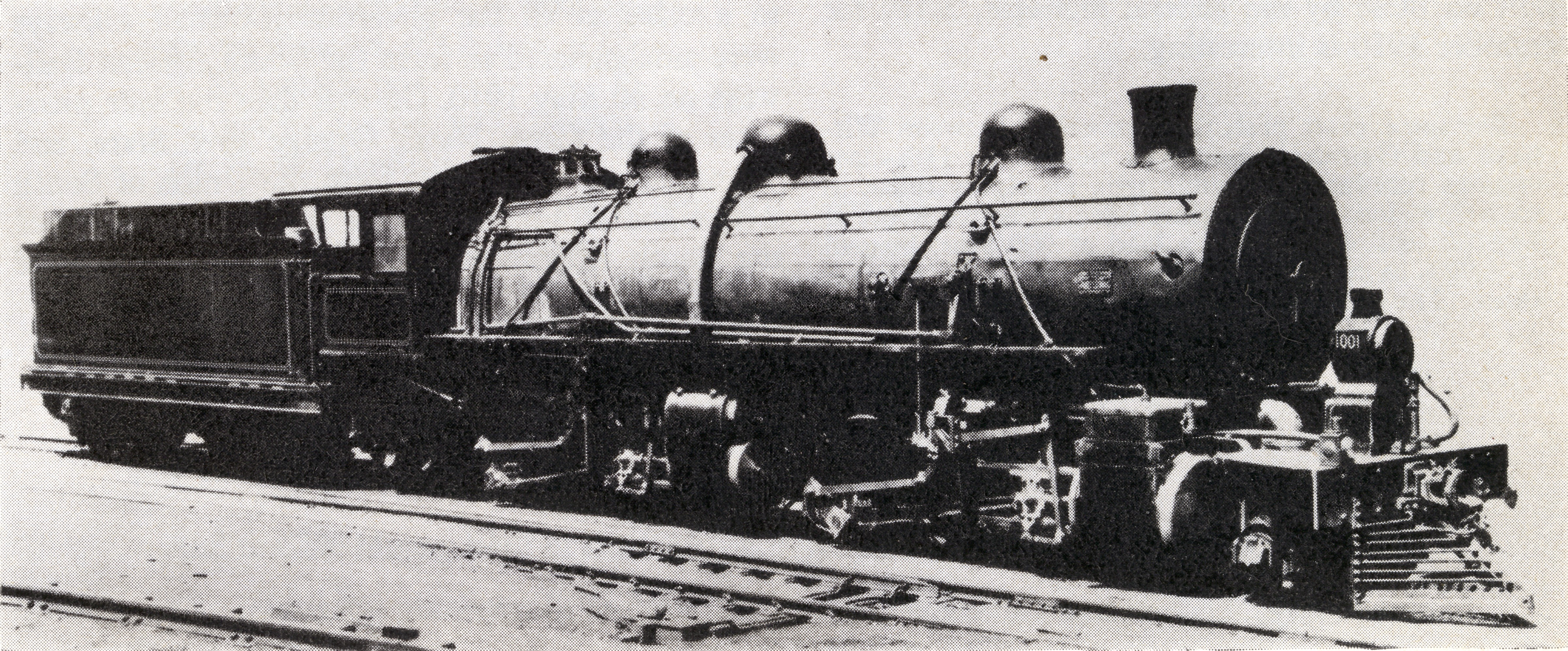 SAR Class MD 1617 (2-6-6-2), ex CSAR 1001